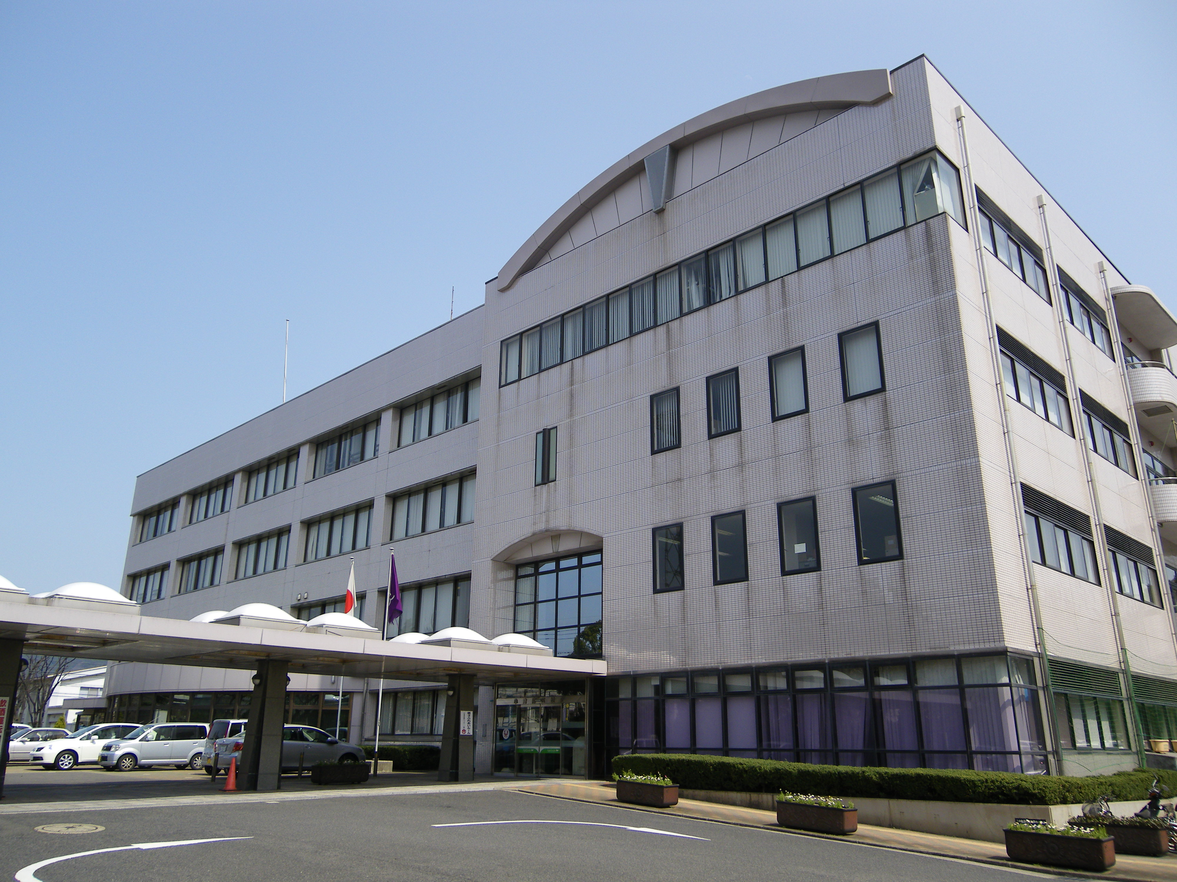 Kokura-minami ward office building,Kitakyushu city.